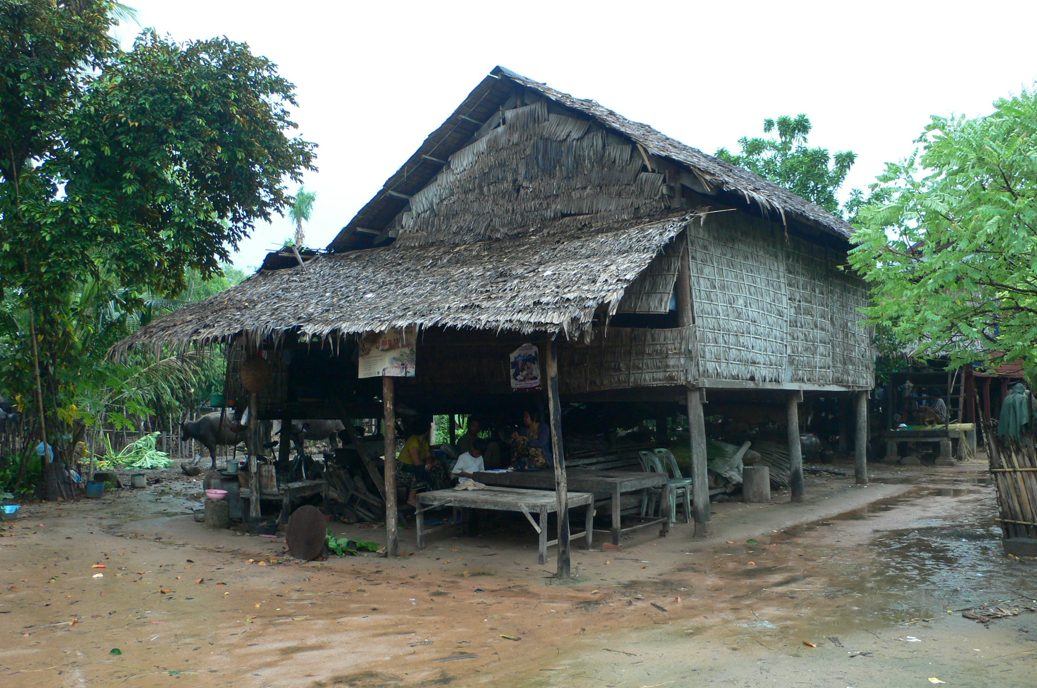 House